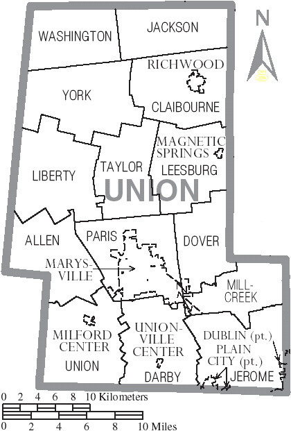 Map of Union County, Ohio, United States with township and municipal boundaries